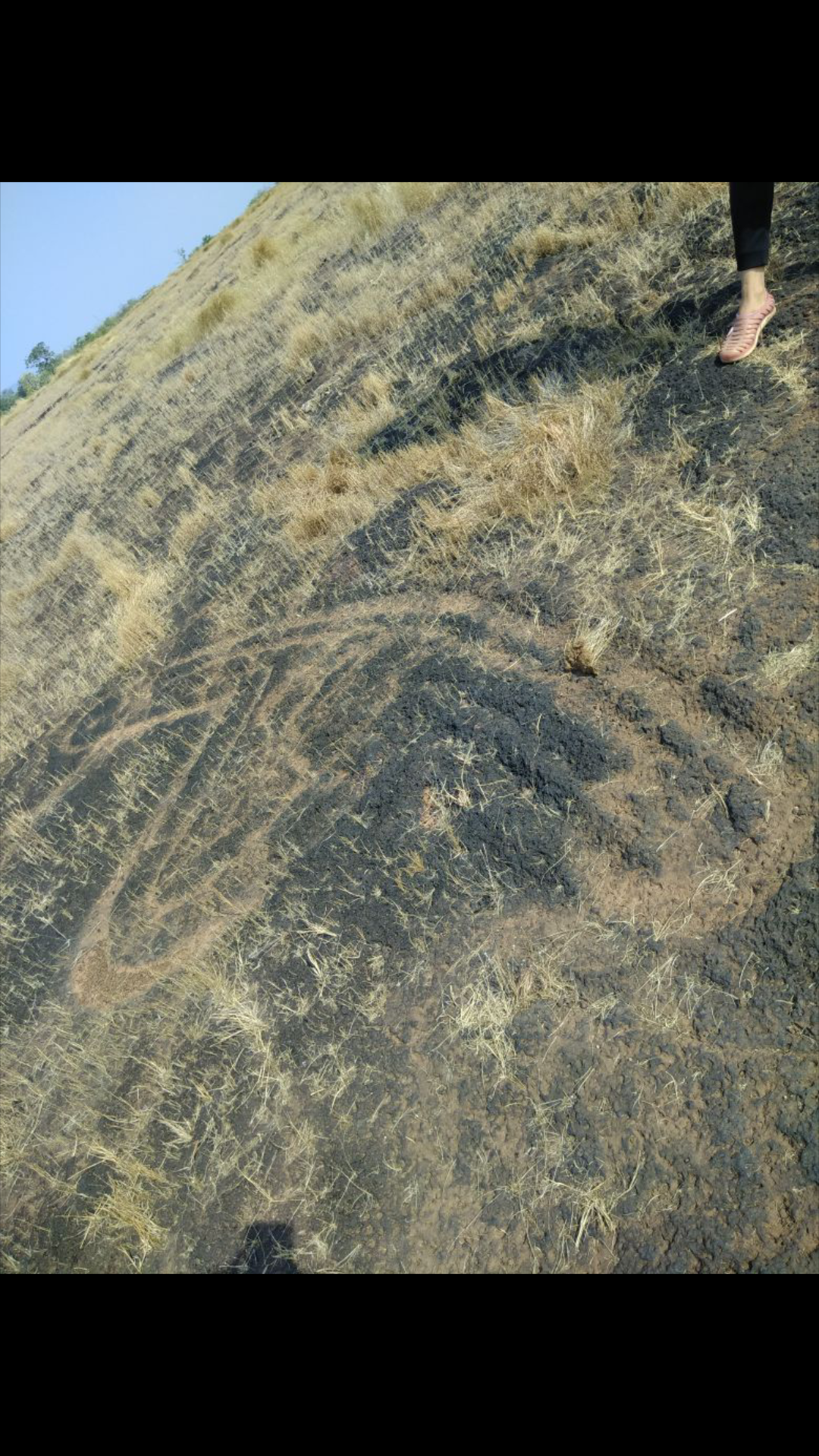 Aai Aryadurga, devihasol. Rajapur